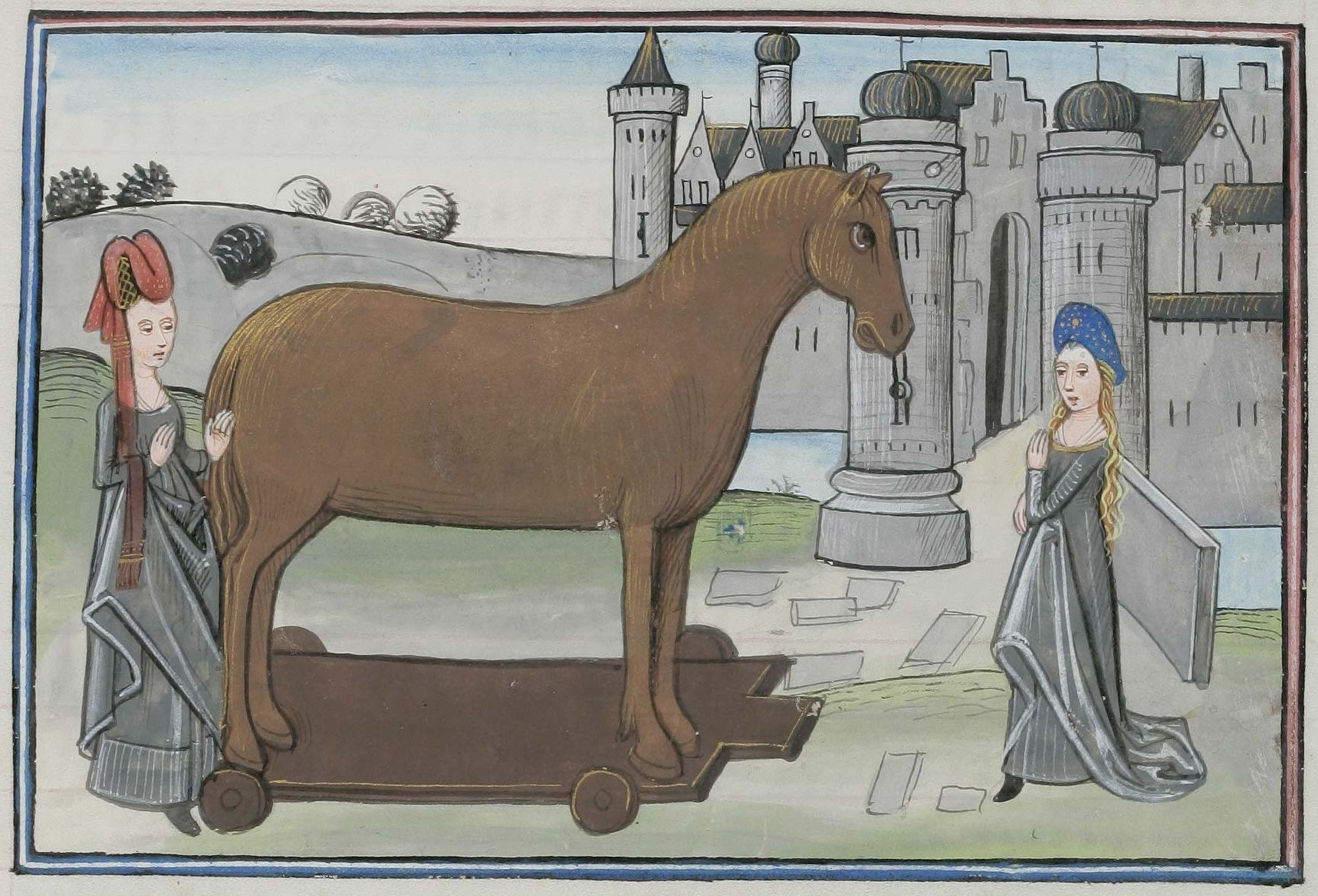 Miniatures cropped from the ~1460 manuscript containing Christine Pizan's 'Épître d'Othéa' (Epistle to Hector; sometimes known as the Book of Knighthood) - Cologny, Fondation Martin Bodmer, Cod. Bodmer 49, courtesy of the Virtual Manuscript Library of Switzerland